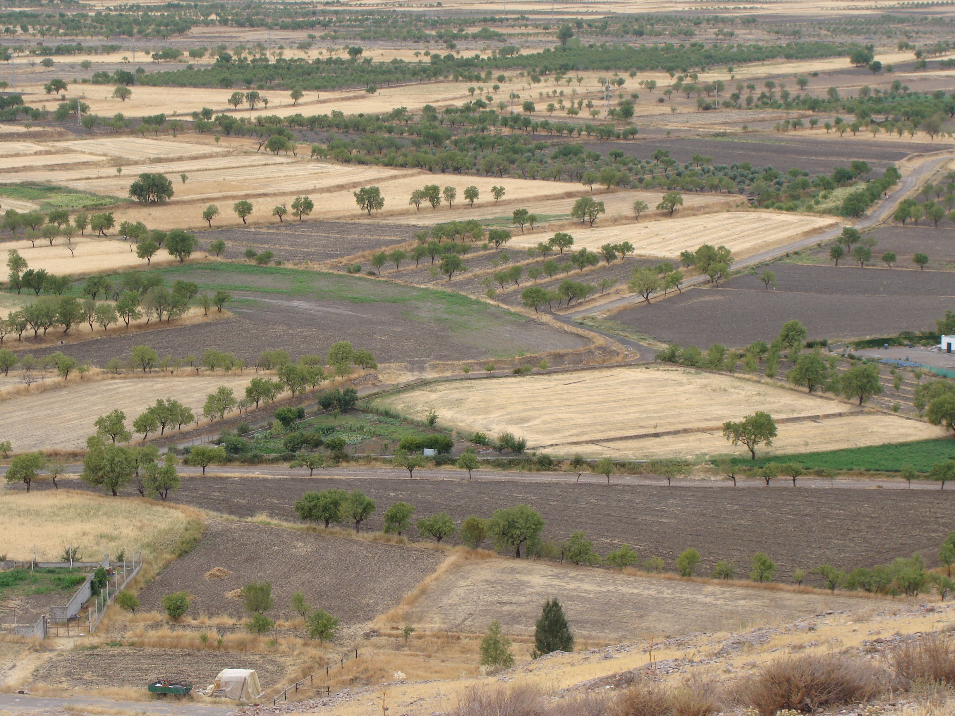 andalusian fields, view from La Calahorra castle